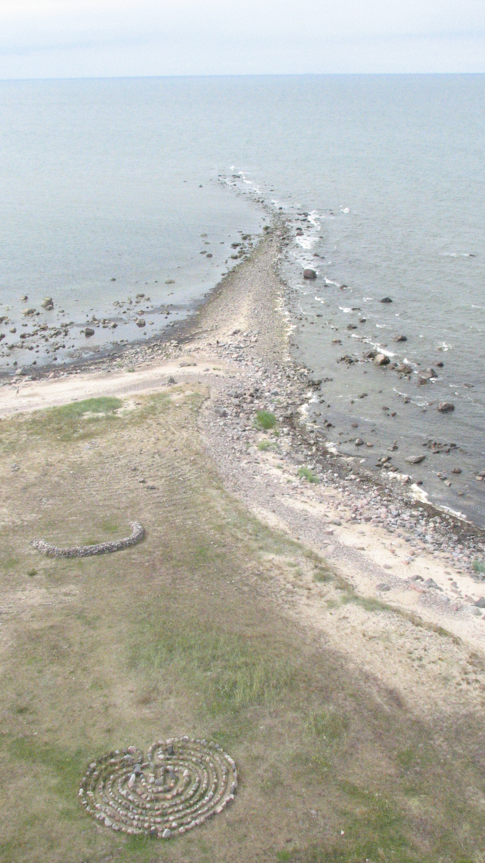 Tahkuna nose, Hiiumaa, Estonia